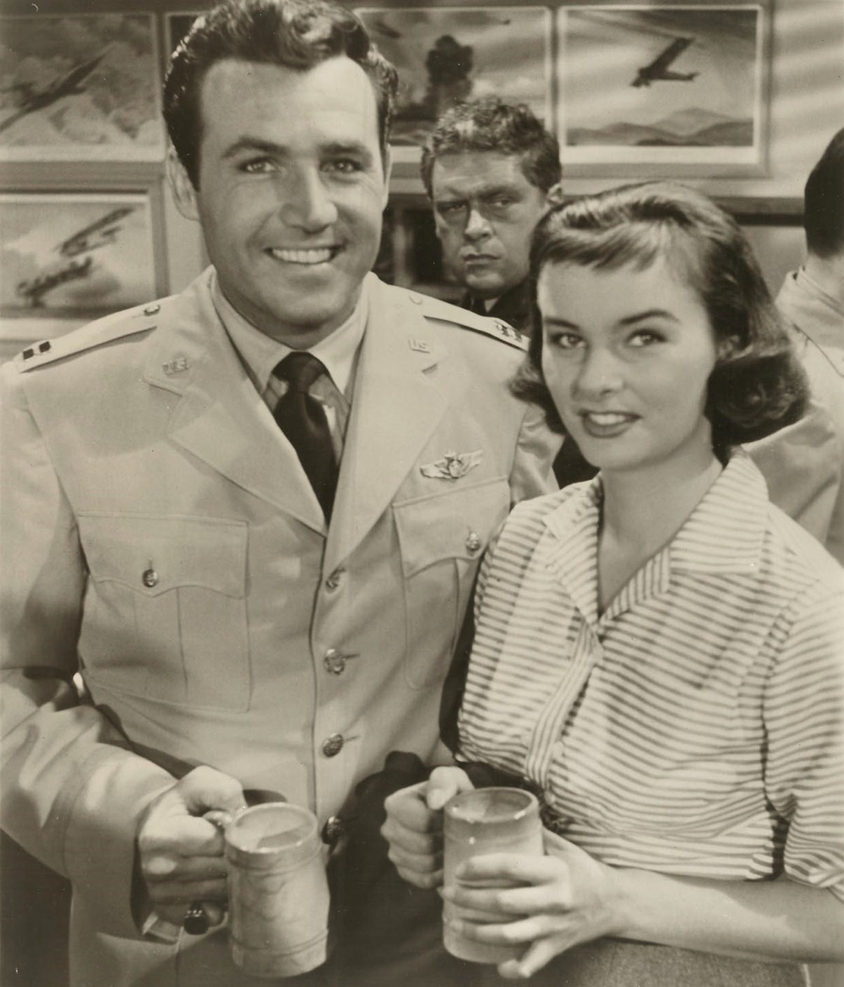 Rex Reason & Audrey Dalton in Thundering Jets - publicity still (cropped)